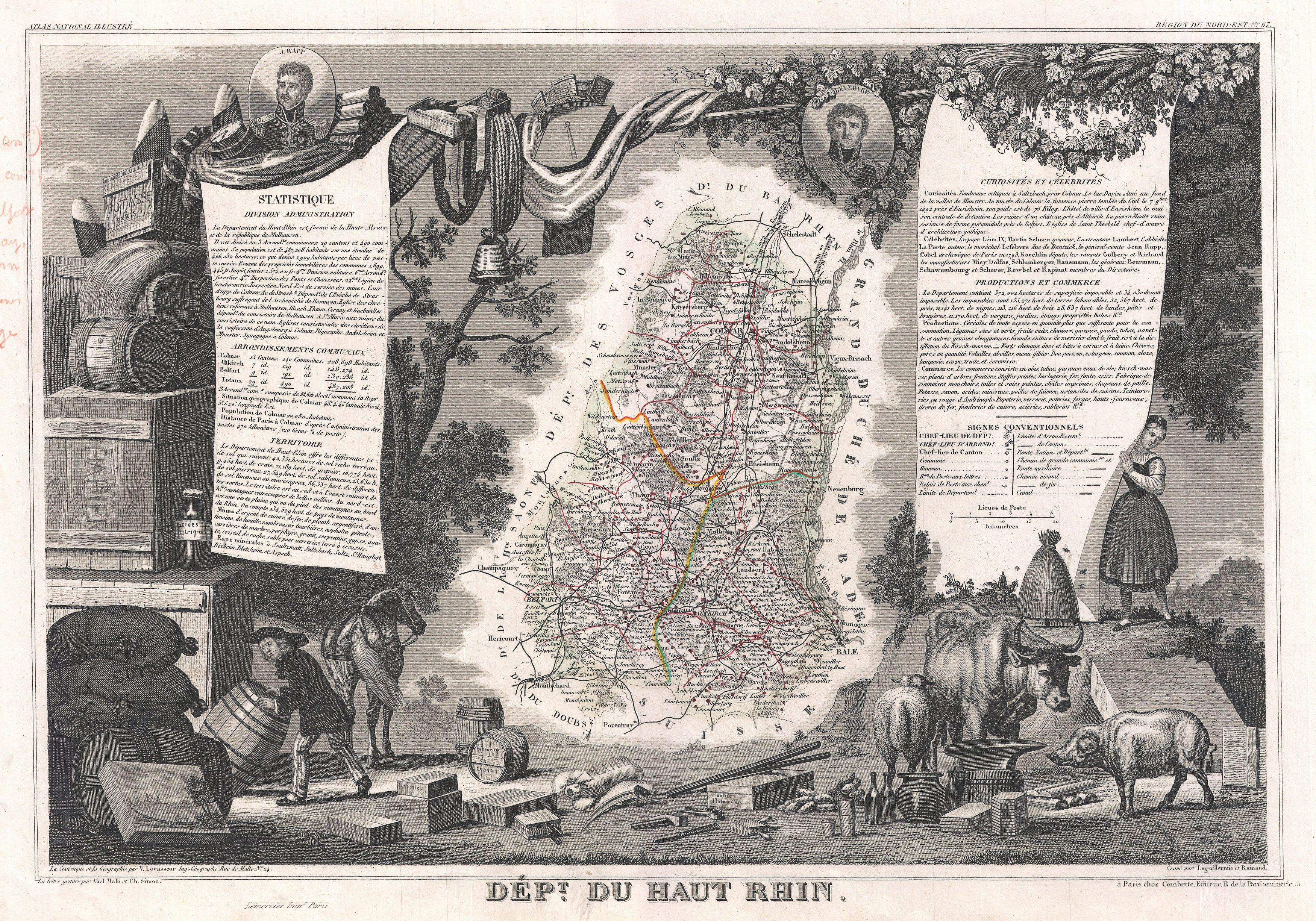 This is a fascinating 1852 map of the French department of Haut-Rhin, France. This mountainous area is part of the Alsace wine region and is known for its production of both Pinot Noir and Pinot Gris. The map proper is surrounded by elaborate decorative engravings designed to illustrate both the natural beauty and trade richness of the land. There is a short textual history of the regions depicted on both the left and right sides of the map. Published by V. Levasseur in the 1852 edition of his Atlas National de la France Illustree.